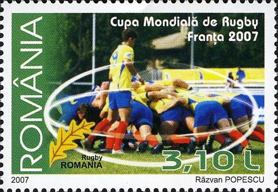 Stamps of Romania, 2007